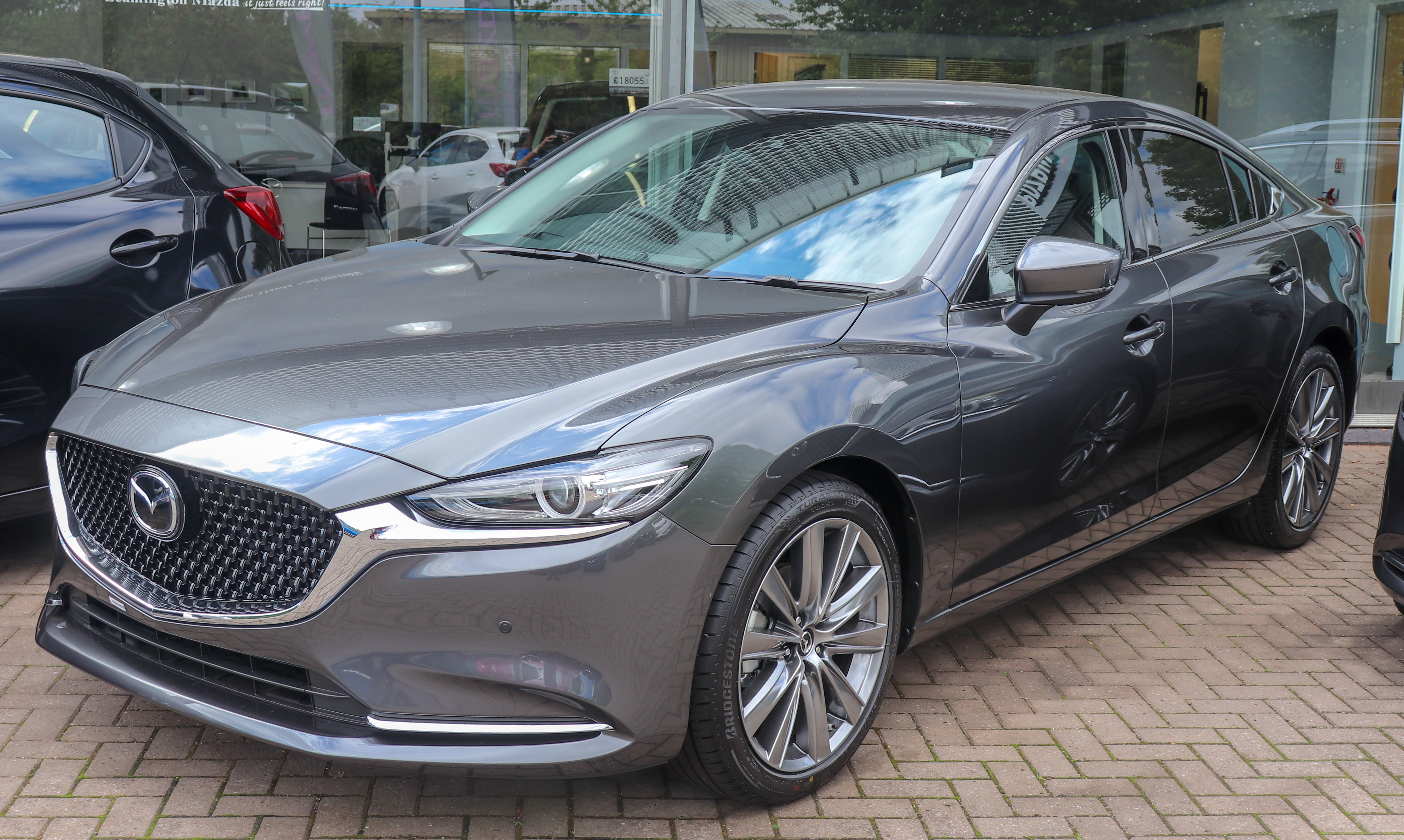 2018 Mazda6 facelift